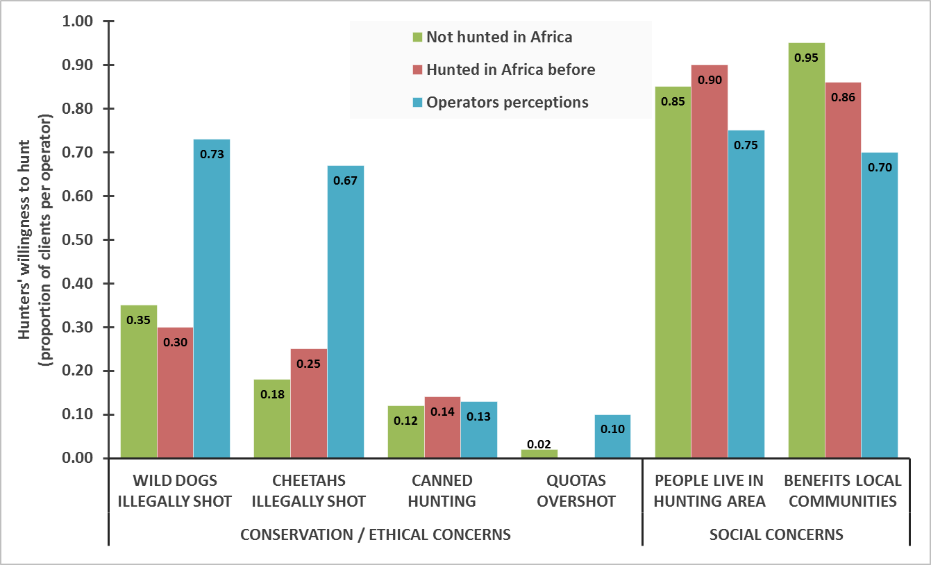 Clients are generally unwilling to hunt under conditions whereby conservation issues are compromised, such as where canned hunts occur or in areas where quotas are overshoot. Clients are also less willing than operators realize to hunt in areas were wild dogs (Chi-squared=8.72, d.f.=1, P≤0.01) or cheetahs (Chi-squared=10.7, d.f.=1, P≤0.01) are illegally shot. Clients also show more concern towards social problems than operators realize, with greater willingness to hunt in areas where local people live (Chi-squared=5.4, d.f.=1, P=0.02) and benefit (Chi-squared=9.4, d.f.=1, P=0.02) from hunting.